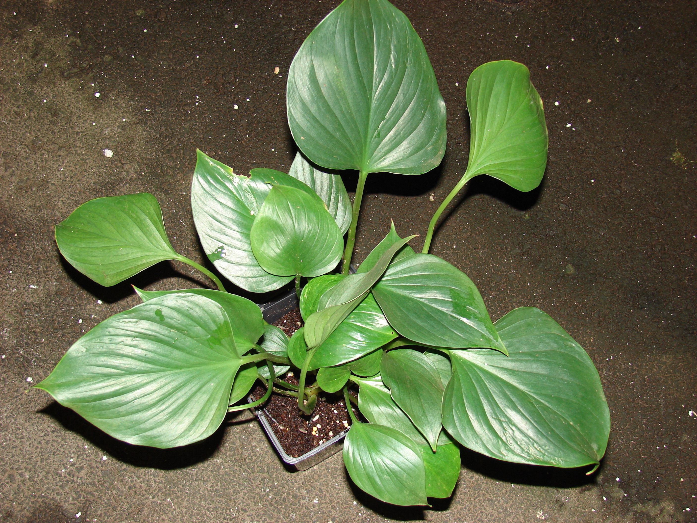 Homalomena sp. (emerald gem habit). Location: Maui, Kula Ace Hardware and Nursery